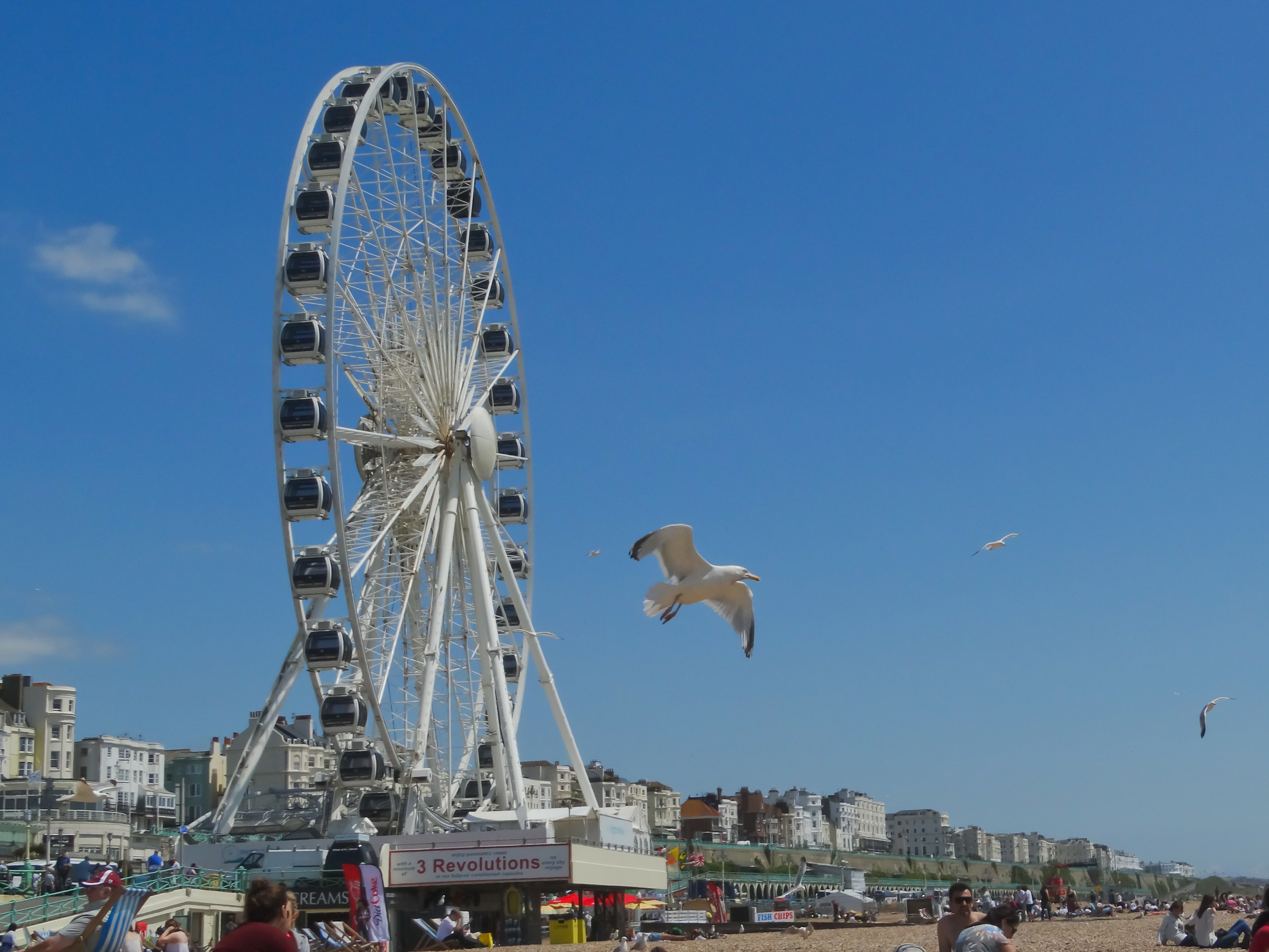 Ferris wheel Brighton at the beach behind the pier